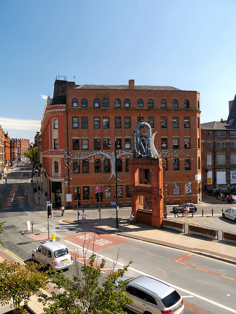 Afflecks with the Tib Street Horn in Manchester's Northern Quarter, England